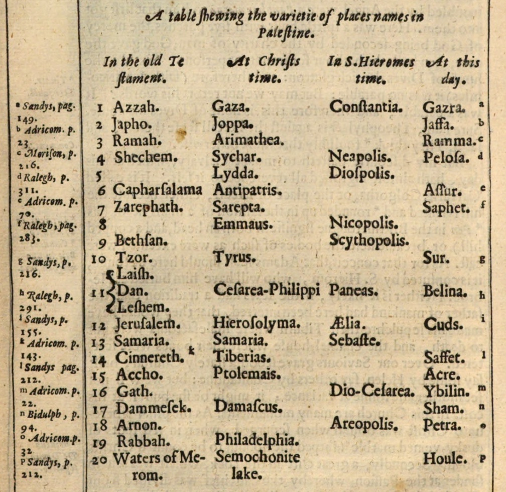 Thomas Fuller, 1639, The Historie of the Holy Warre, Chapter I page 38, "A table shewing the varietie of place names in Palestine"